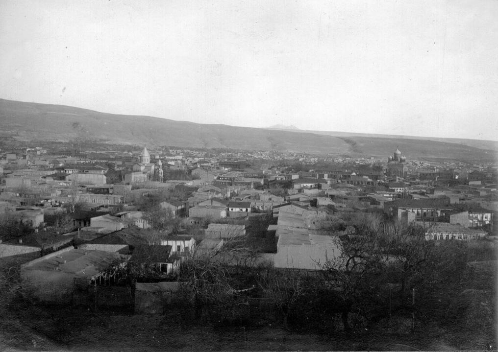 Yerevan in 1920s